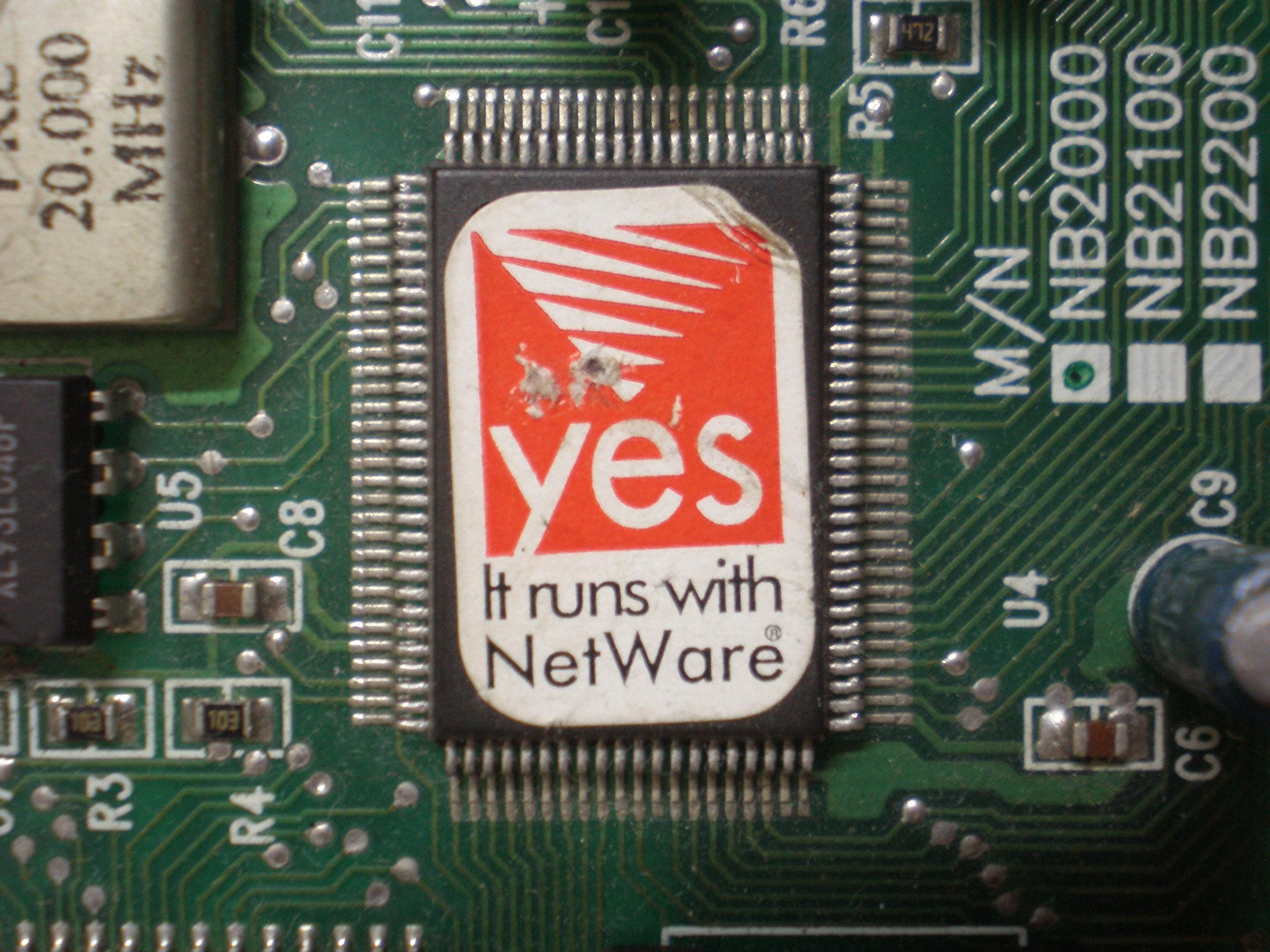 Portion of a network card, with a sticker on it indicating it is certified to run with Novell NetWare.